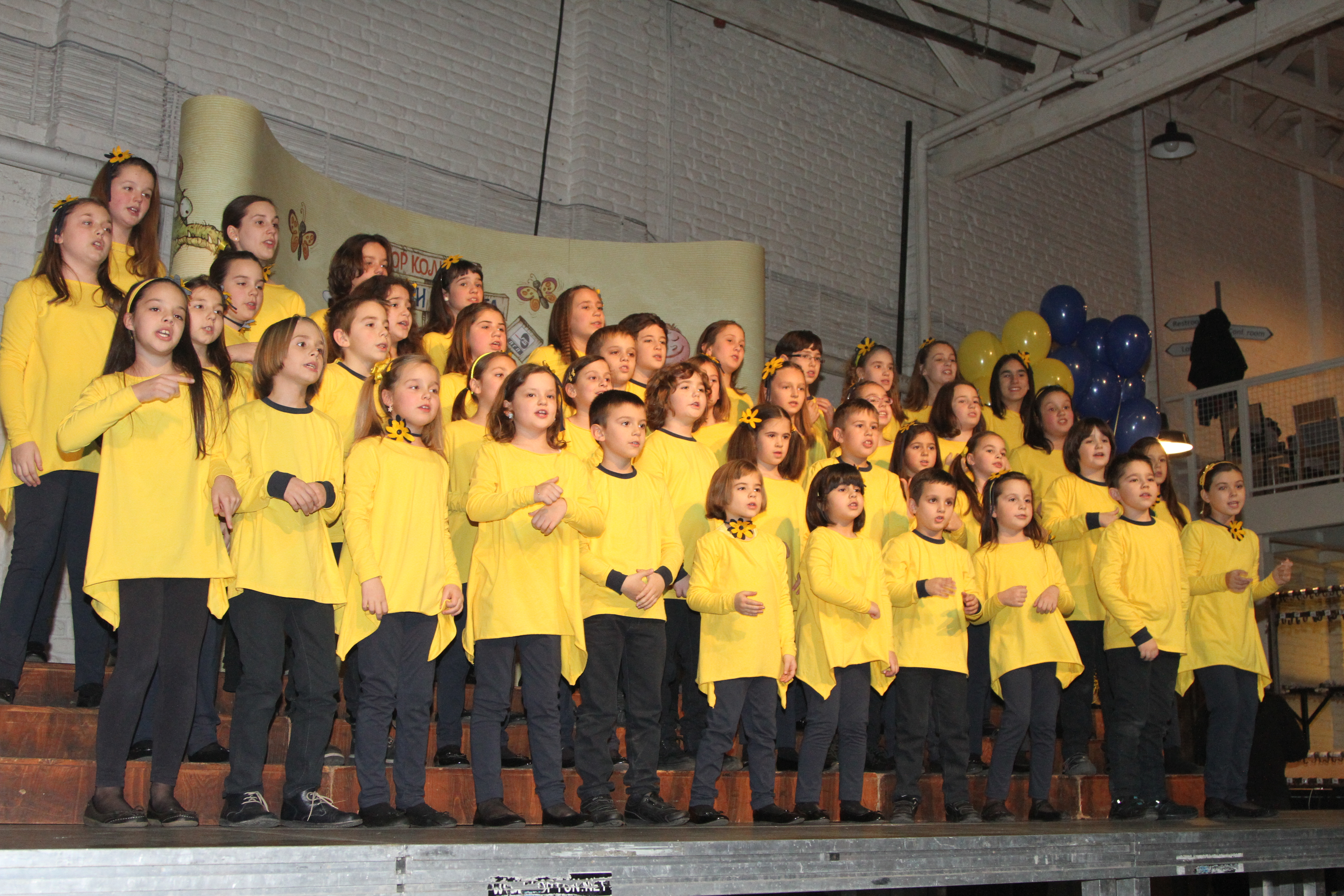 Hor Kolibri